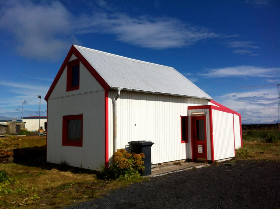 Una's house that will be turned into a museum.